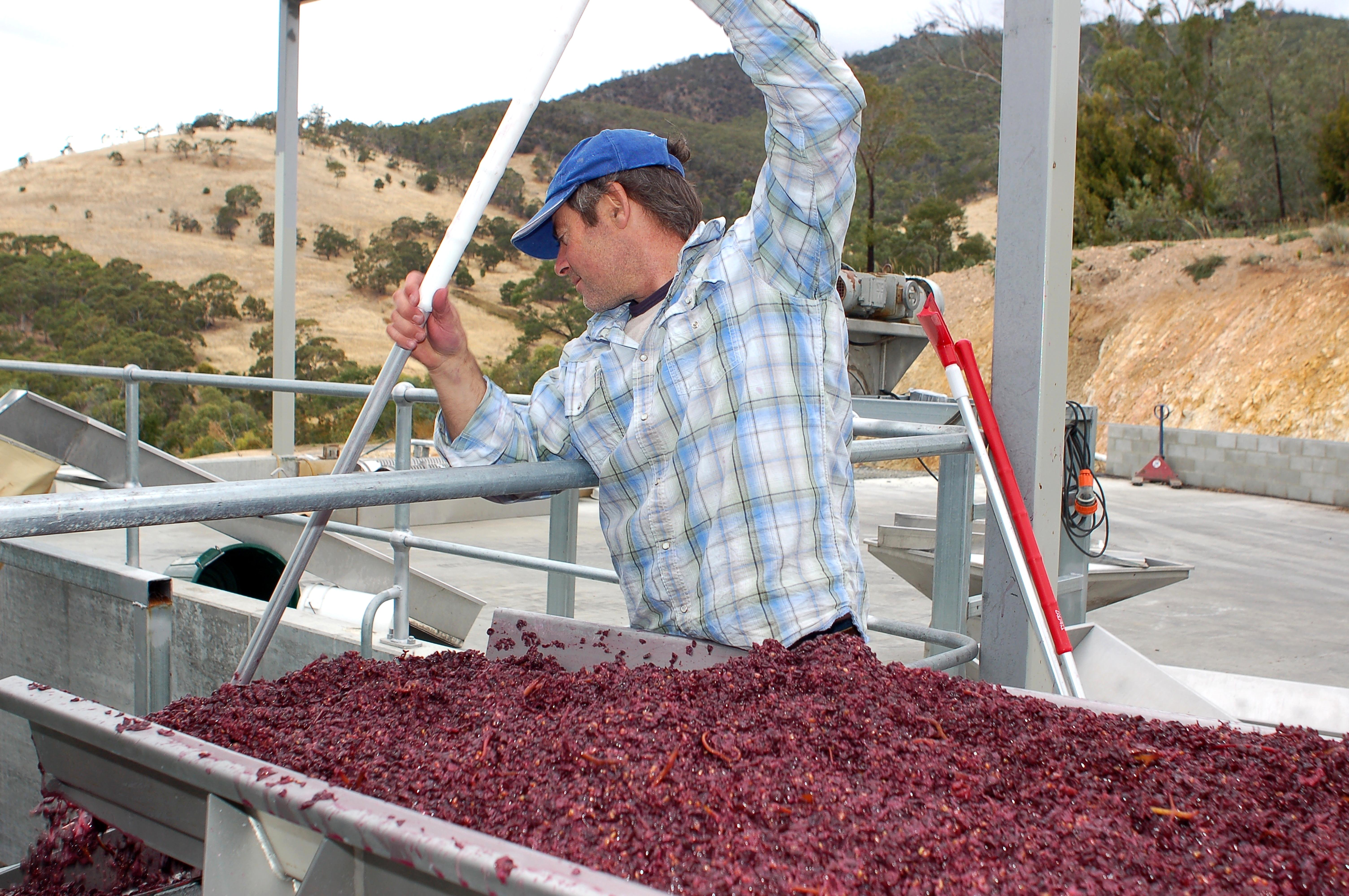 From author: "Winemaker Steve Lubiana vintage 2010 Tasmania". Pushing crushed Pinot noir must from the crusher into a fermentation tank where it will spend some time macerating on the skin, extracting color, flavors, aromas and tannins during fermentation.